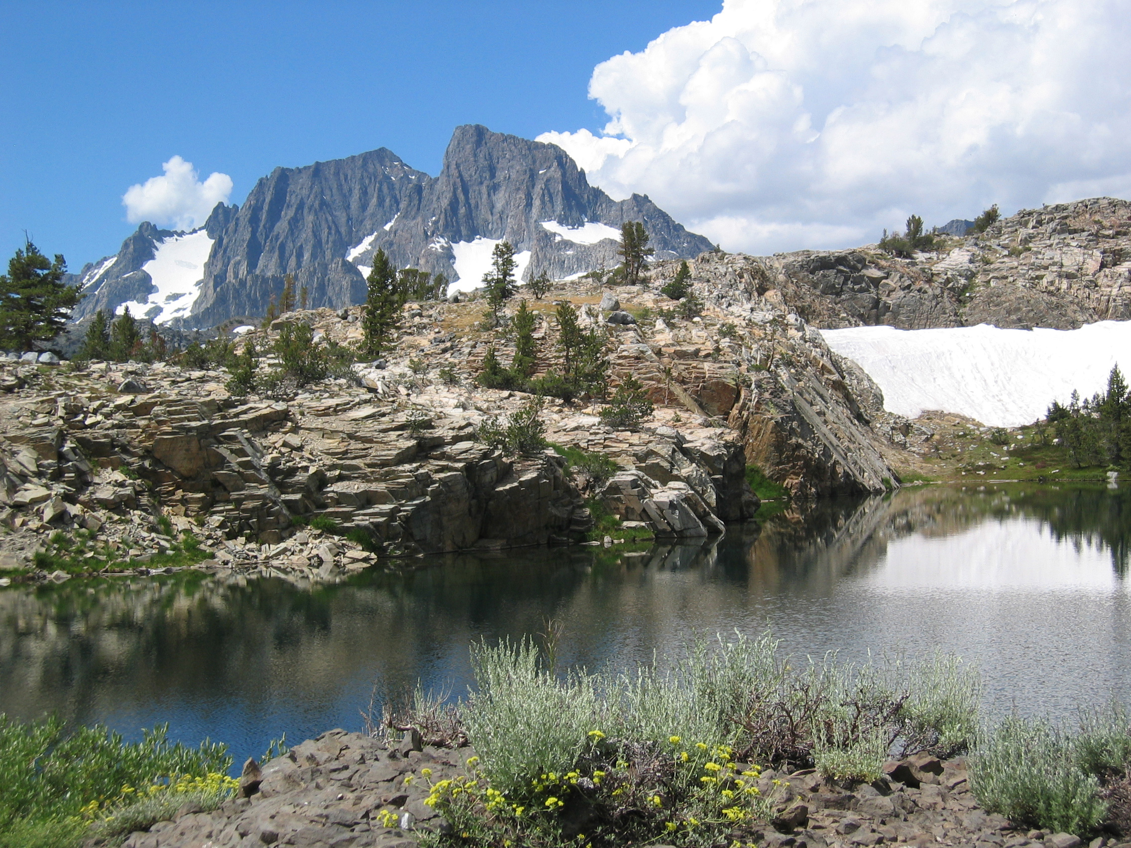 Mt Ritter and Banner Peak seen past Summit Lake, at Agnew Pass. In Ansel Adams Wilderness, Sierra Nevada, California.